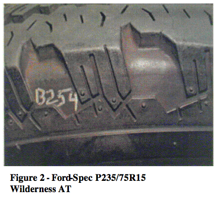 Firestone Wilderness AT P235/75R15 tires showing lug, tread and shoulder pocket of tire.